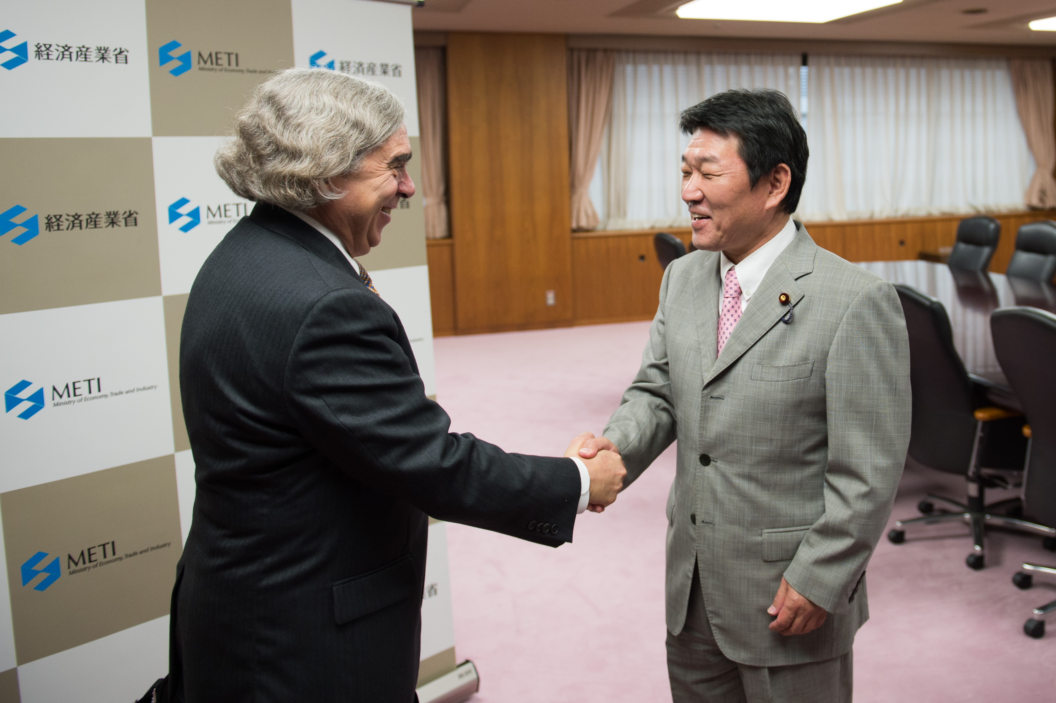 TOKYO, Japan (October 31, 2013) U.S. Secretary of Energy Ernest Moniz greets Japan's Minister of Economy, Trade and Industry Toshimitsu Motegi. [State Department photo by William Ng/Public Domain]